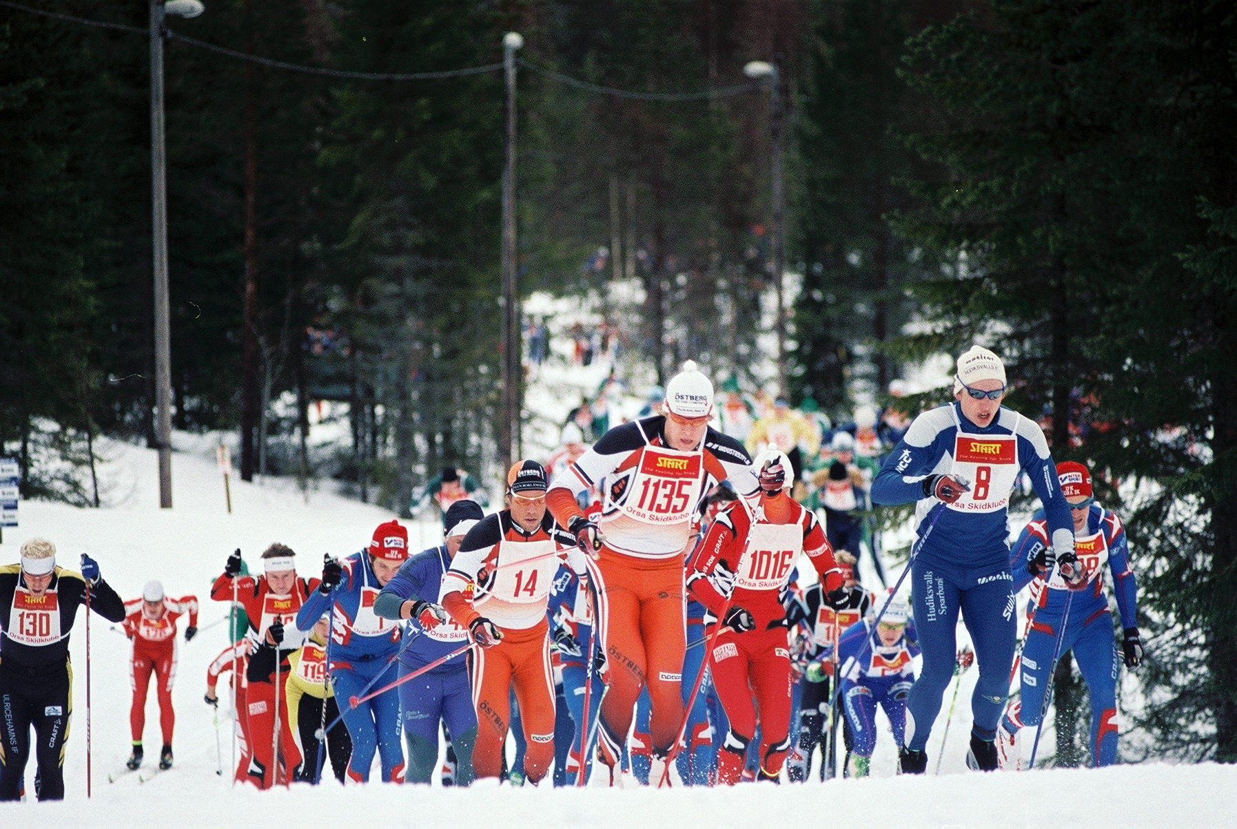 Orsa Grönklitt Ski Marathon, Orsa, Sweden